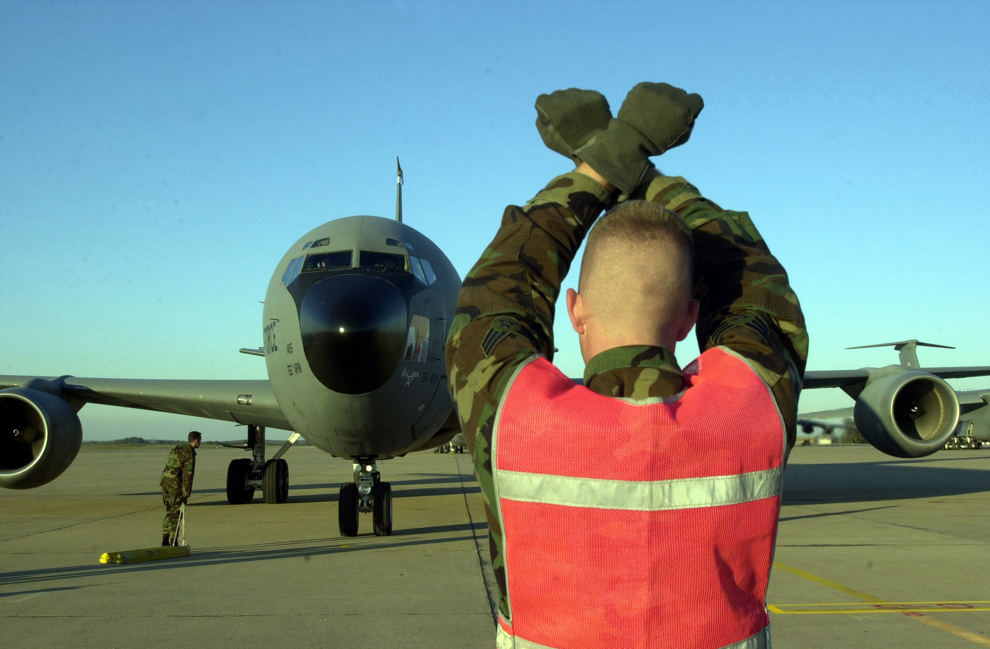 Senior Airman Dan Westman marshals in a KC-135R Stratotanker aircraft on the flightline at an operating location in support of Operation Enduring Freedom. Air Force tankers, such as the KC-135, have flown more than 2,500 air refueling missions for Air Force and Navy aircraft engaged in OEF.